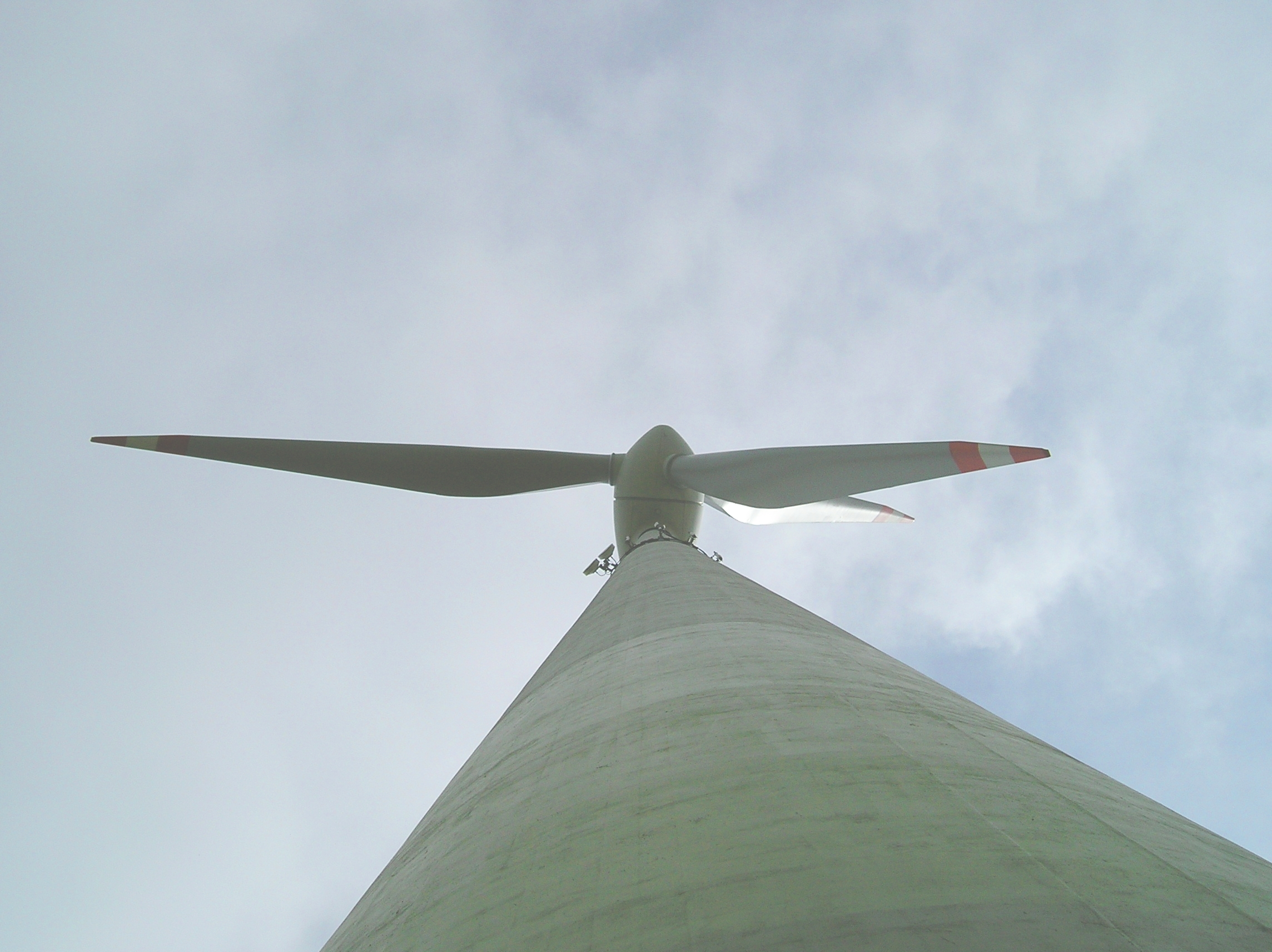 Enercon E66 wind turbine next to Kasberg (near Gräfenberg in the Franconian Swiss mountain range, Germany) viewed from below, while the rotor was standing still at a lull in the wind. You can see clearly the shape of the blades as they were moved out of the wind and the egg formed generator nacelle (typical nacelle form of turbines from Enercon).